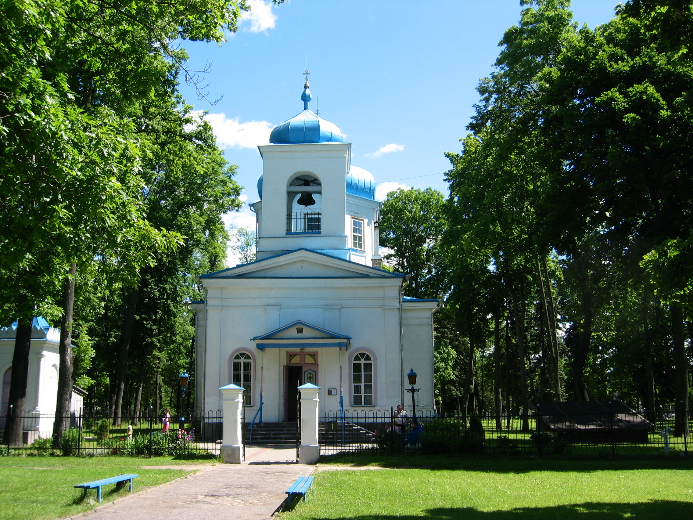 Rēzekne Russian Orthodox Church, Rēzekne, Latvia